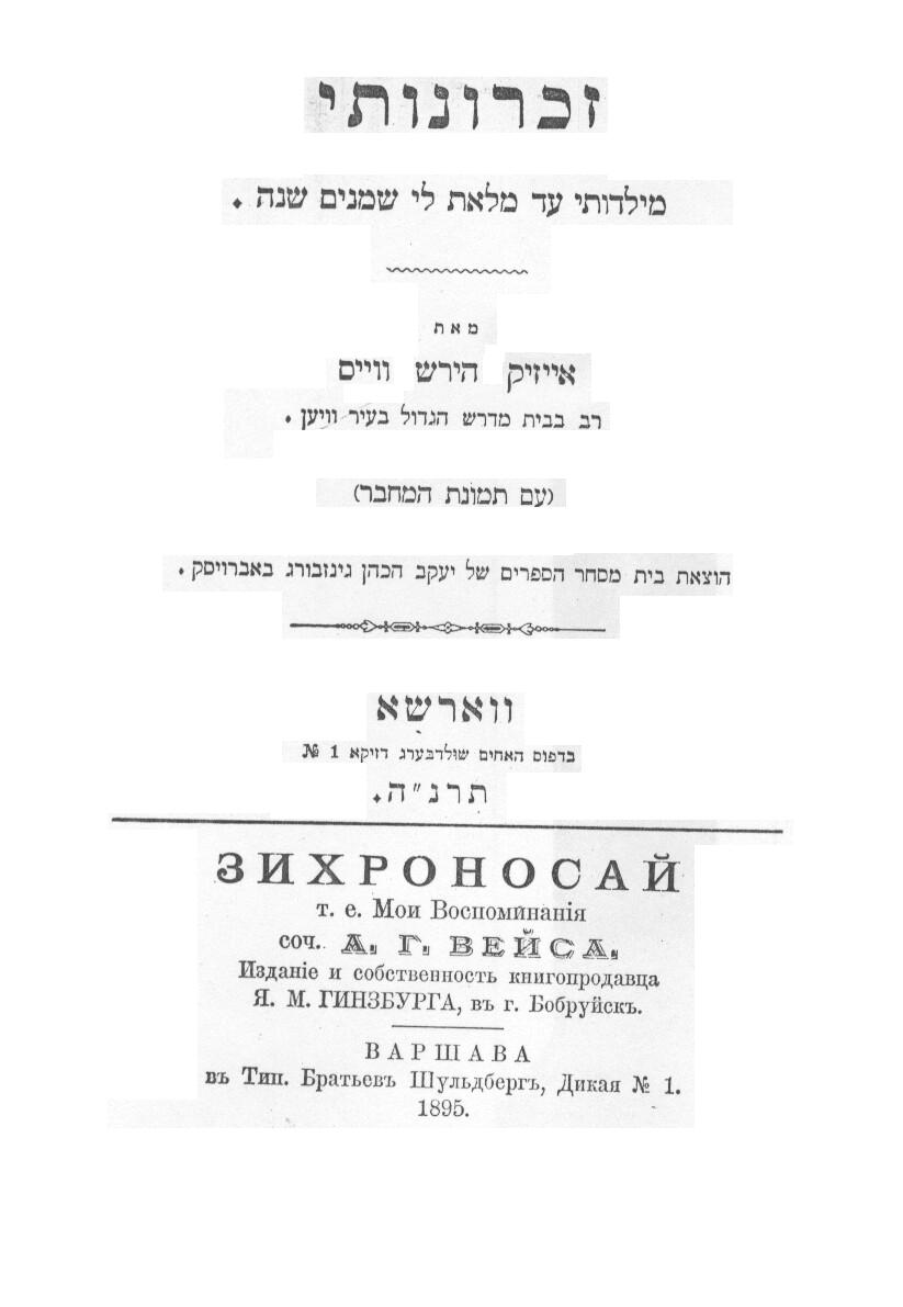 Front page of "Zichronotai" (זכרונותי, My Reminiscences) by Hebrew scholar Isaac Hirsch Weiss